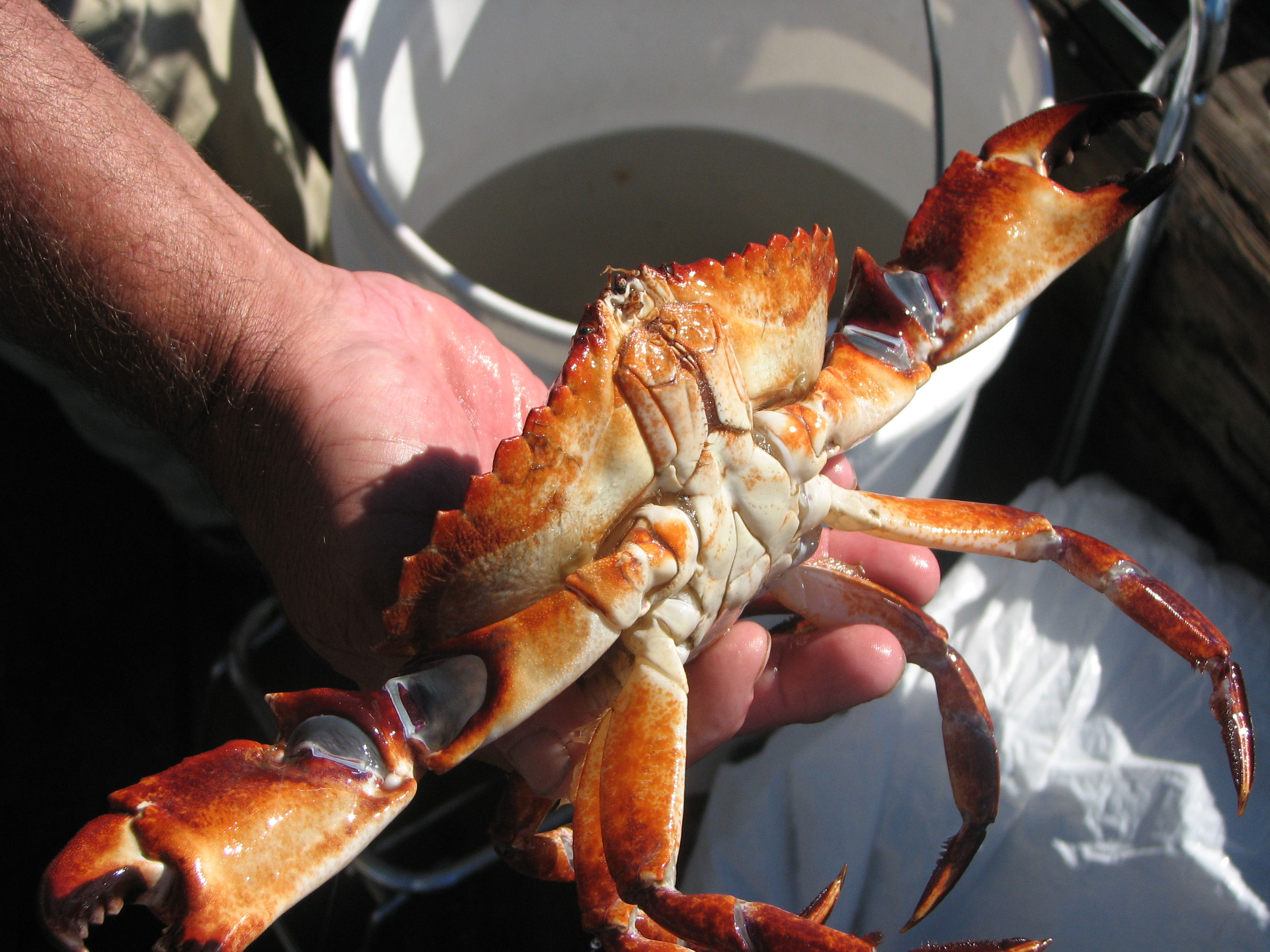 A Red rock crab caught from Elliot Bay, Seattle, Washington, USA.